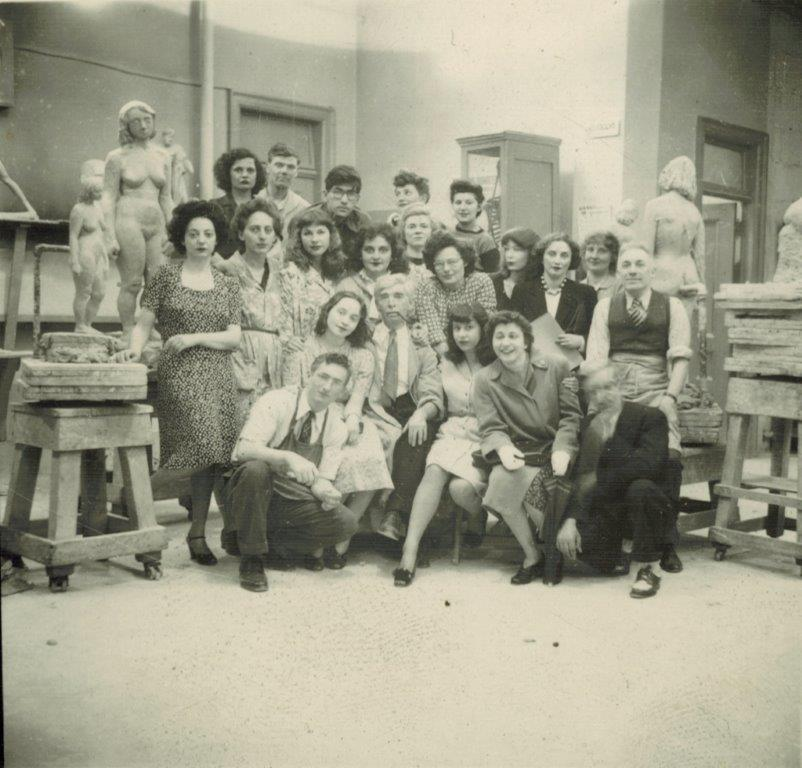 Photo of sculpture class of Ossip Zadkine at the Art Students League of NYC, 1943-44; Zadkine is in middle, with tie; Berta Rosenbaum Golahny is in middle row, third from left, with long hair.